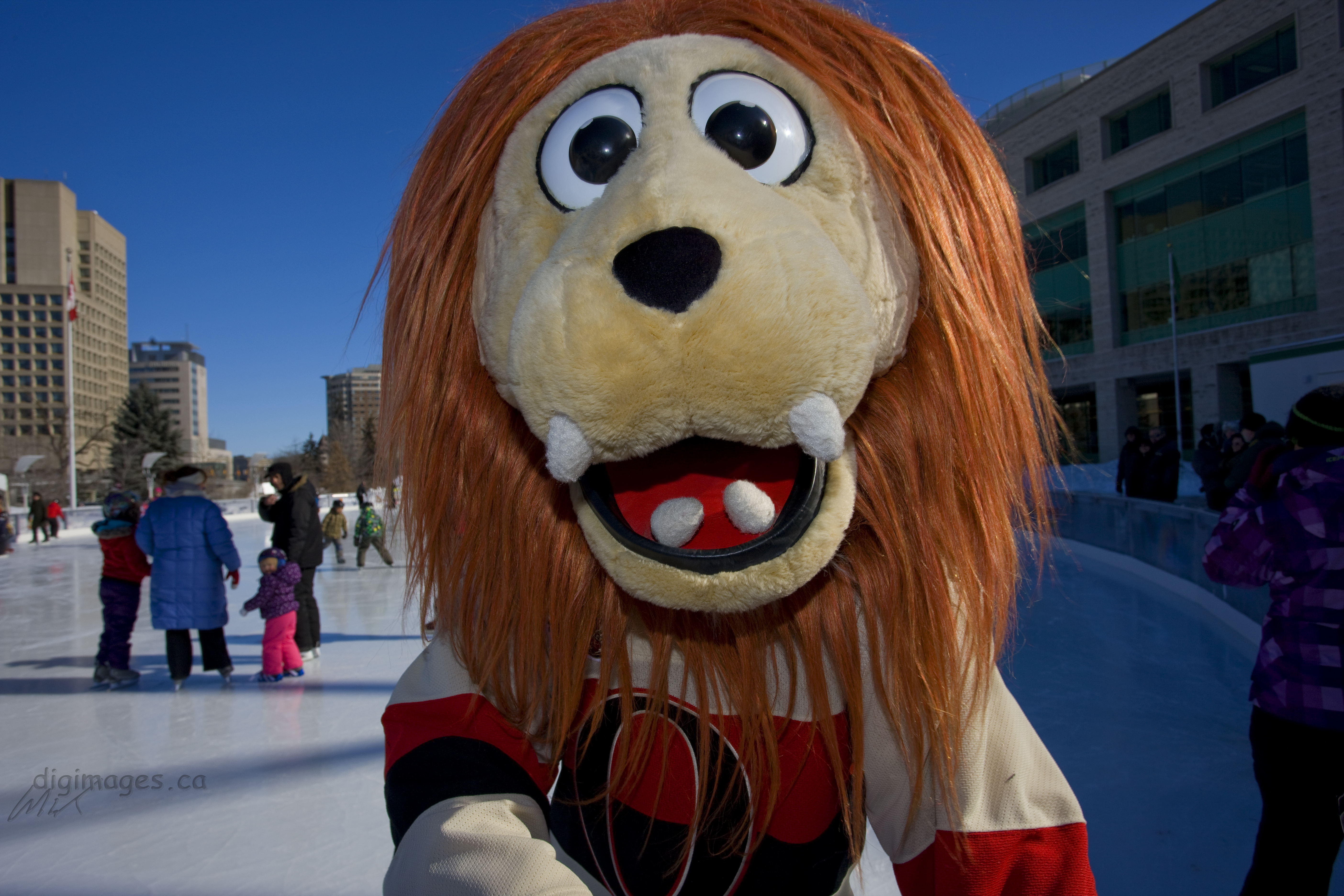 Winterlude is partly held in Confederation Park, better known as Crystal Garden, is the site for the ice sculpture competition, the ice lounge and musical concerts. Marion Dewar Plaza at City Hall (across from Confederation Park) is the site of the Rink of Dreams, an ice-skating rink that hosts skating shows, DJ dance parties and interactive art displays throughout the Festival.